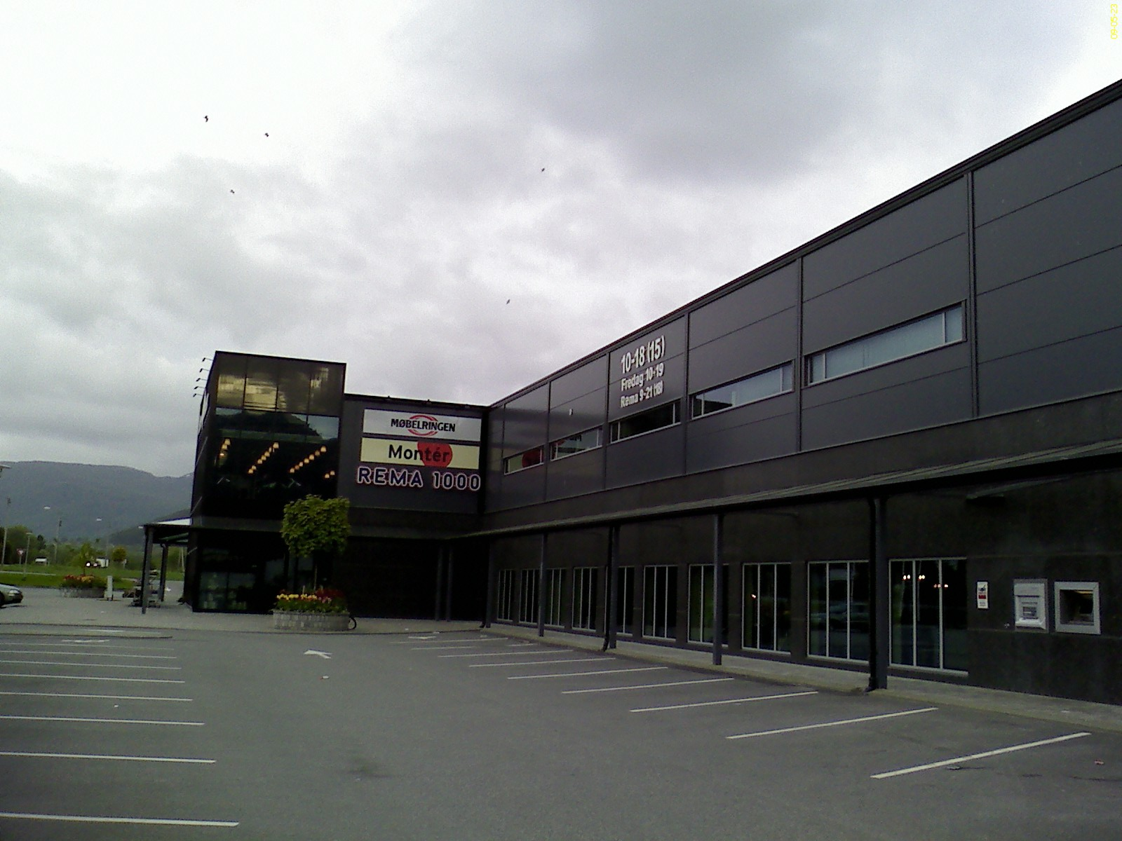 this is Etne shopping center